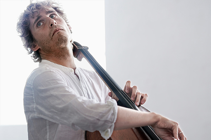 Andreas Brantelid at Aarhus Jazz Festival 2018